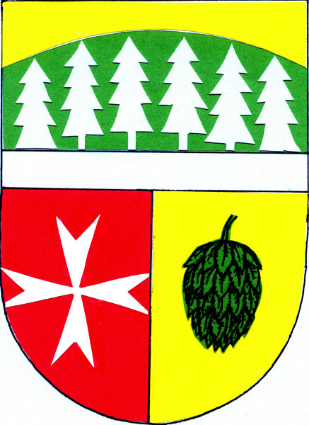 Coat of amrs of Pochvalov municipality, Rakovník District, Czech Republic.